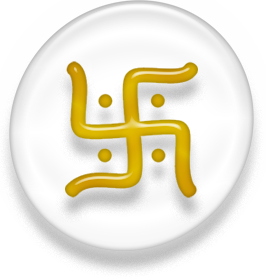 Jain Swastika. It is part of the Jain Symbol, but it is not the complete Jain Symbol.